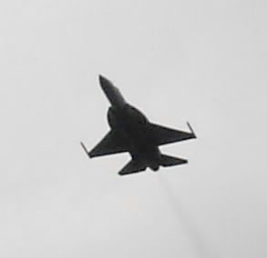 A JF-17 Thunder in flight over a Pakistan Air Force airbase during flying operations. A silhouette of the aircraft is visible against a cloudy sky.